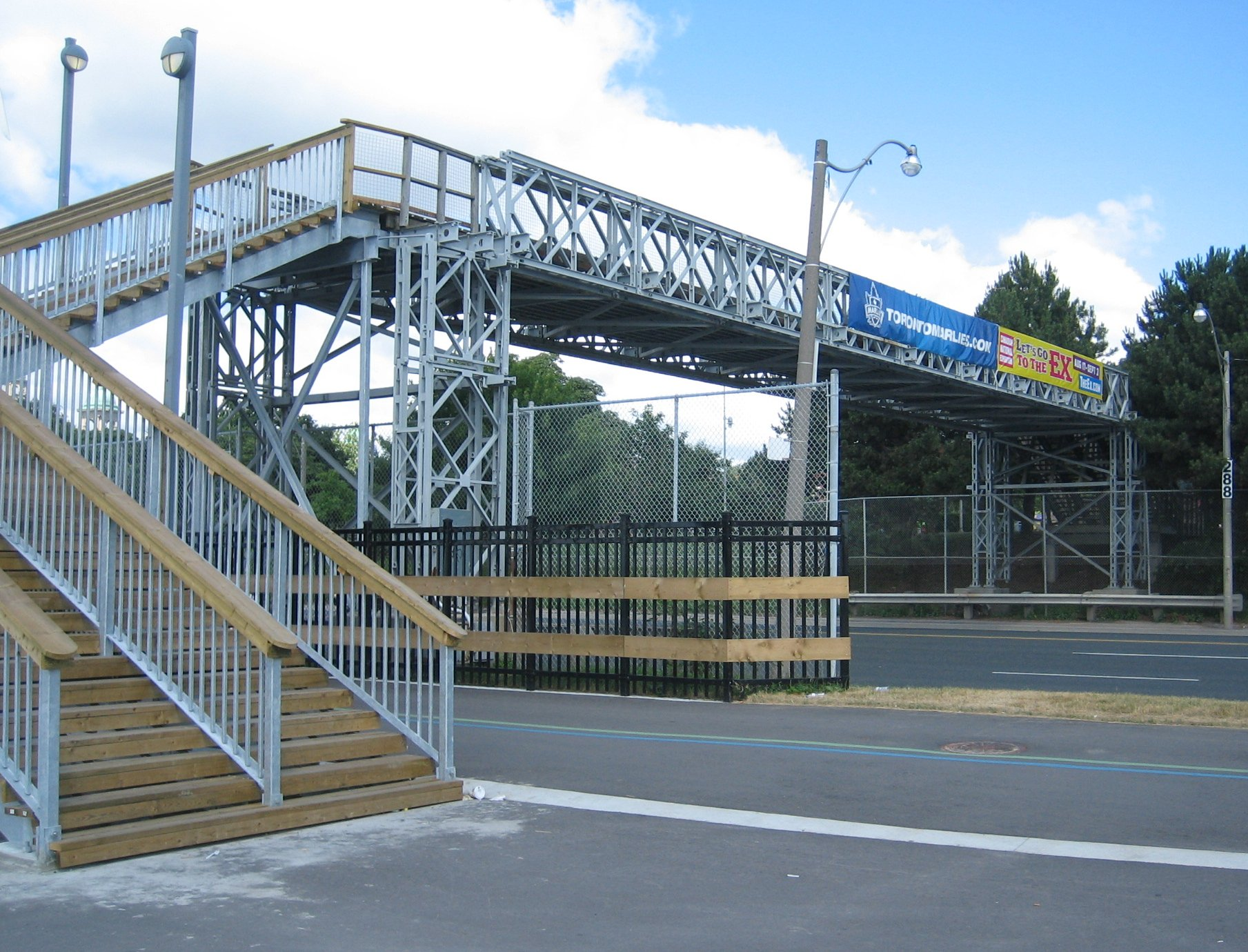 The Lakeshore Boulevard Bailey Bridge in Toronto